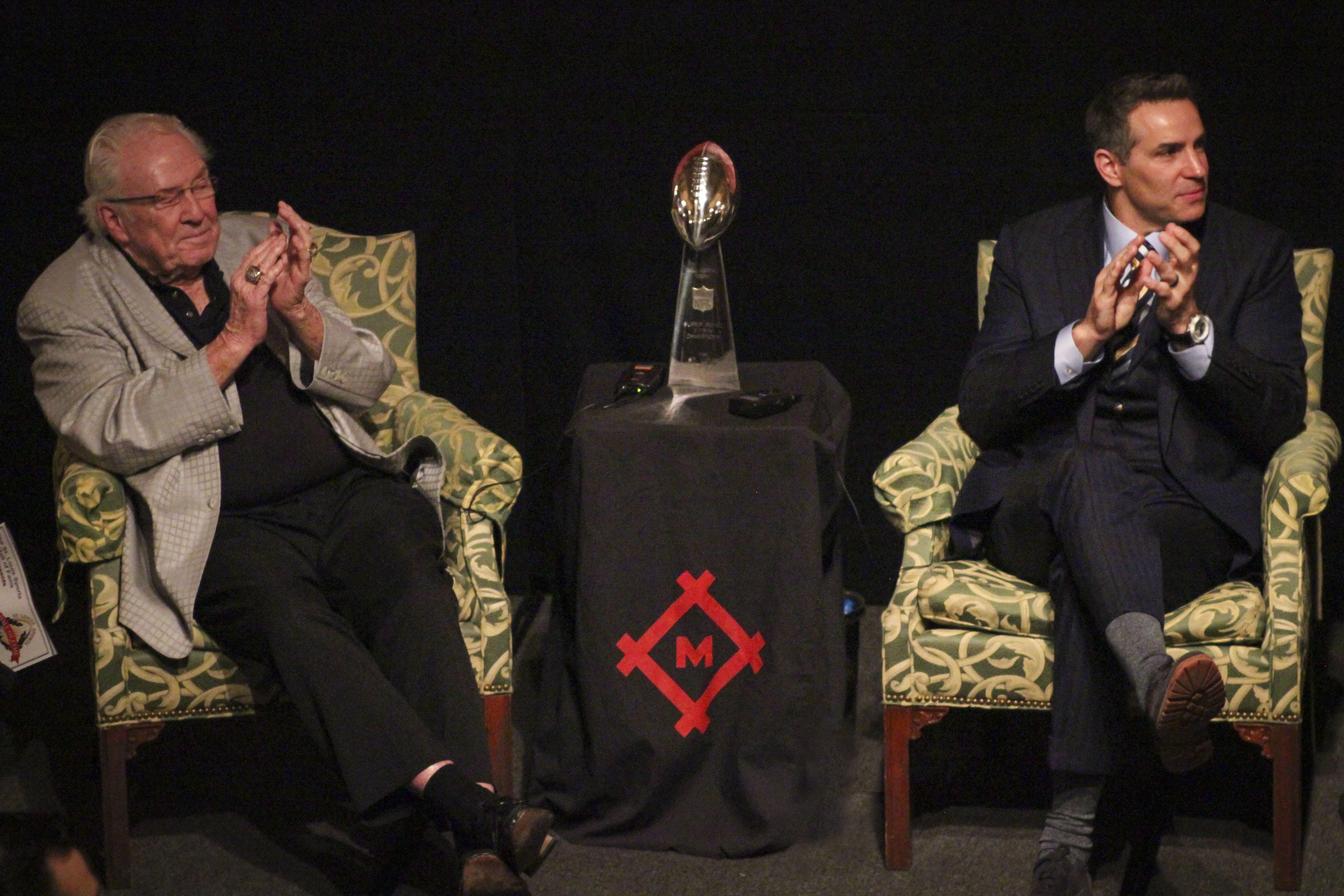 Kurt Warner inducted into the St.Louis Sports hall of fame.